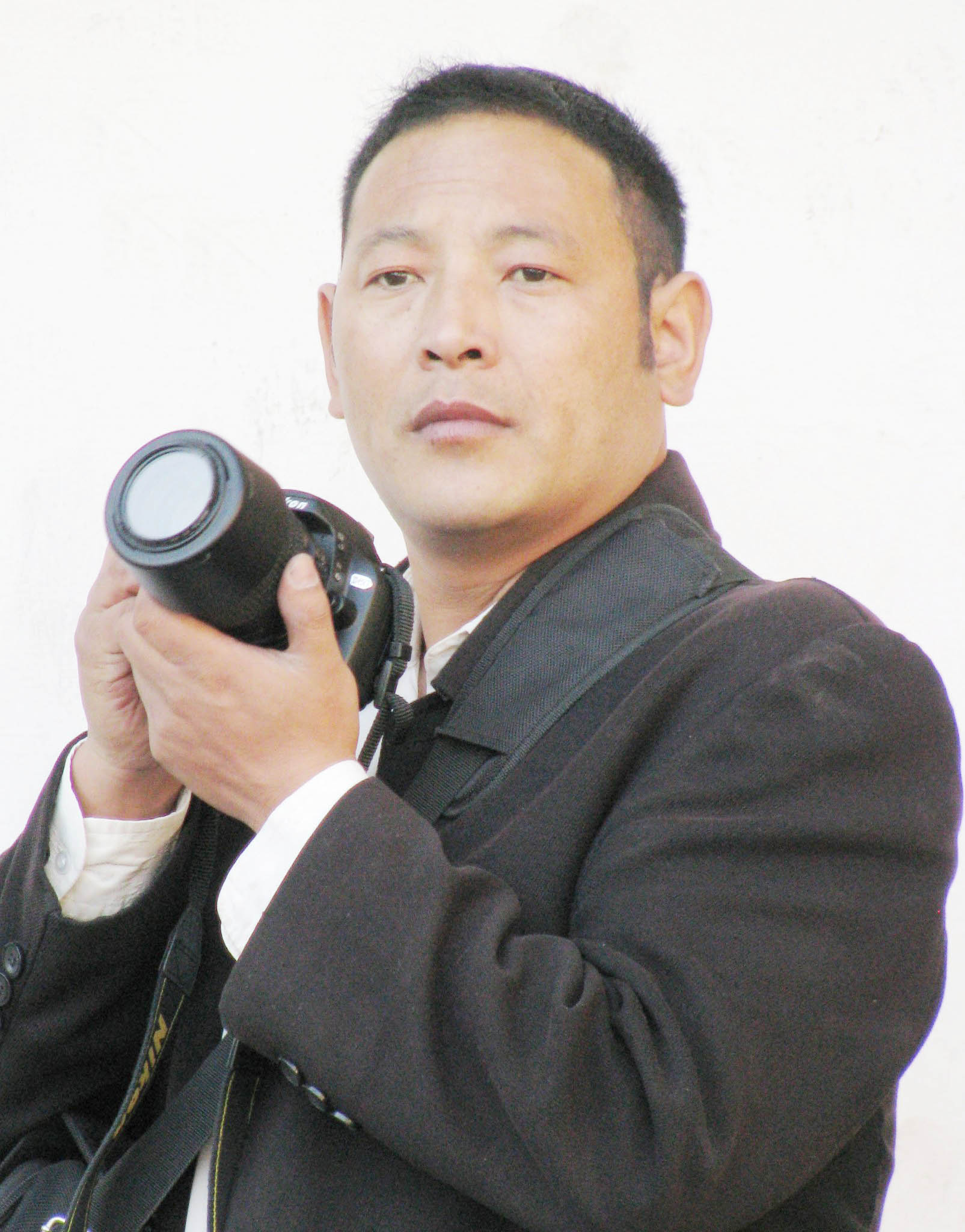 Yeshe Choesang, editor of The Tibet Post, a bimonthly English newspaper based in Dharamshala, India, photo taken in 2009.